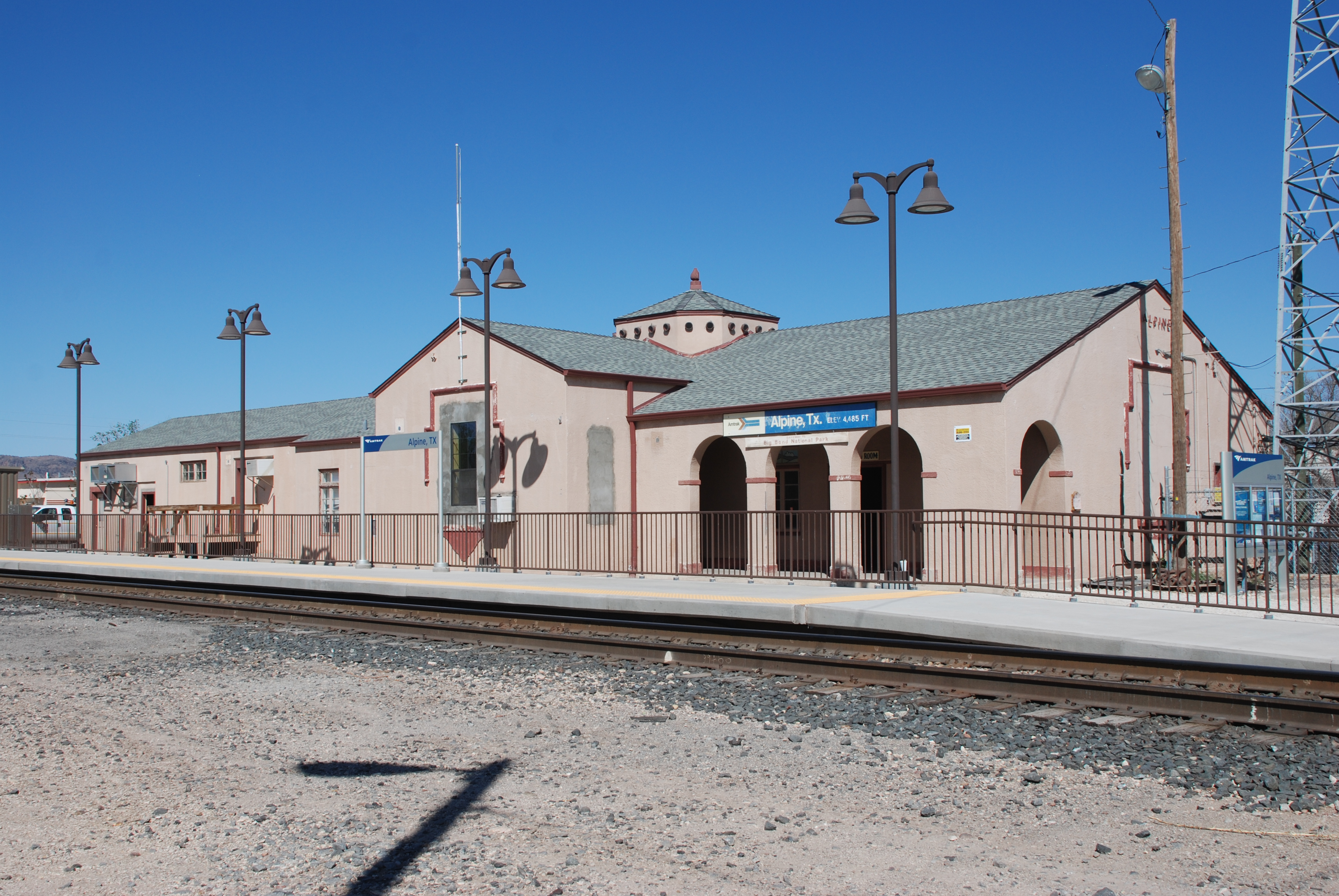 Amtrak Railway Station (Alpine, Texas, USA)